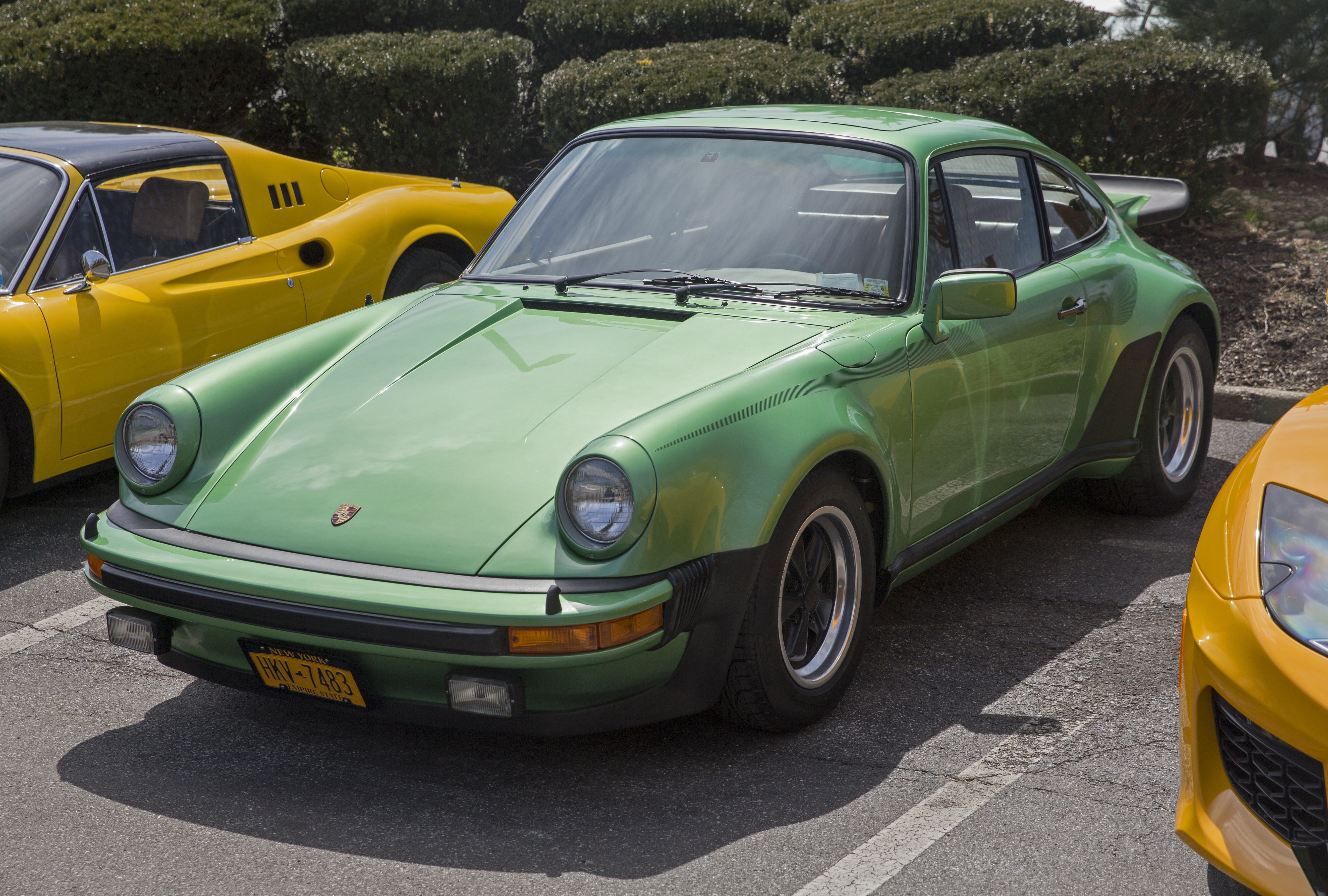 A 1976 Porsche 930 Turbo in fairly unusual Emerald Green Metallic with Cinnamon interior, US-spec, photographed at Autosports Designs in Huntington, NY (Long Island). Love the graphics. Chassis number 472 out of 520, long-time Alaska car.